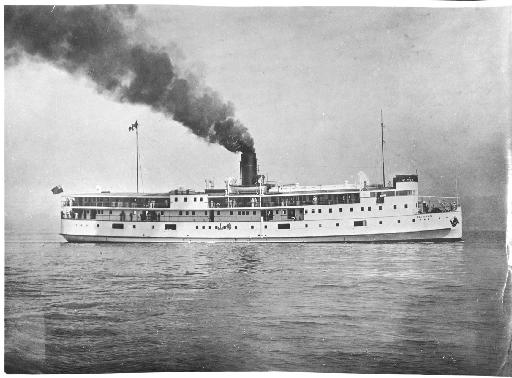 Photo of the Fatshan II sailing under the Swire flag of the China Navigation Company and British Hong Kong.